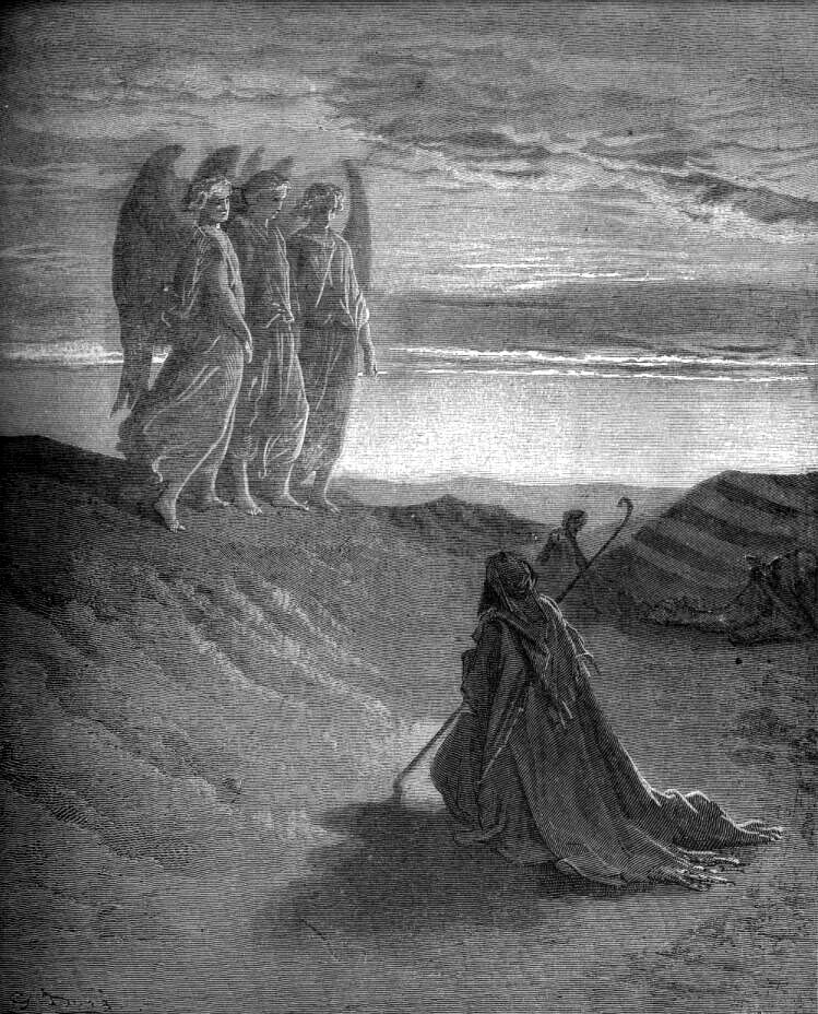 Paul Gustave Louis Christophe Doré's illustration entitled 'Abraham Entertains Three Strangers.'